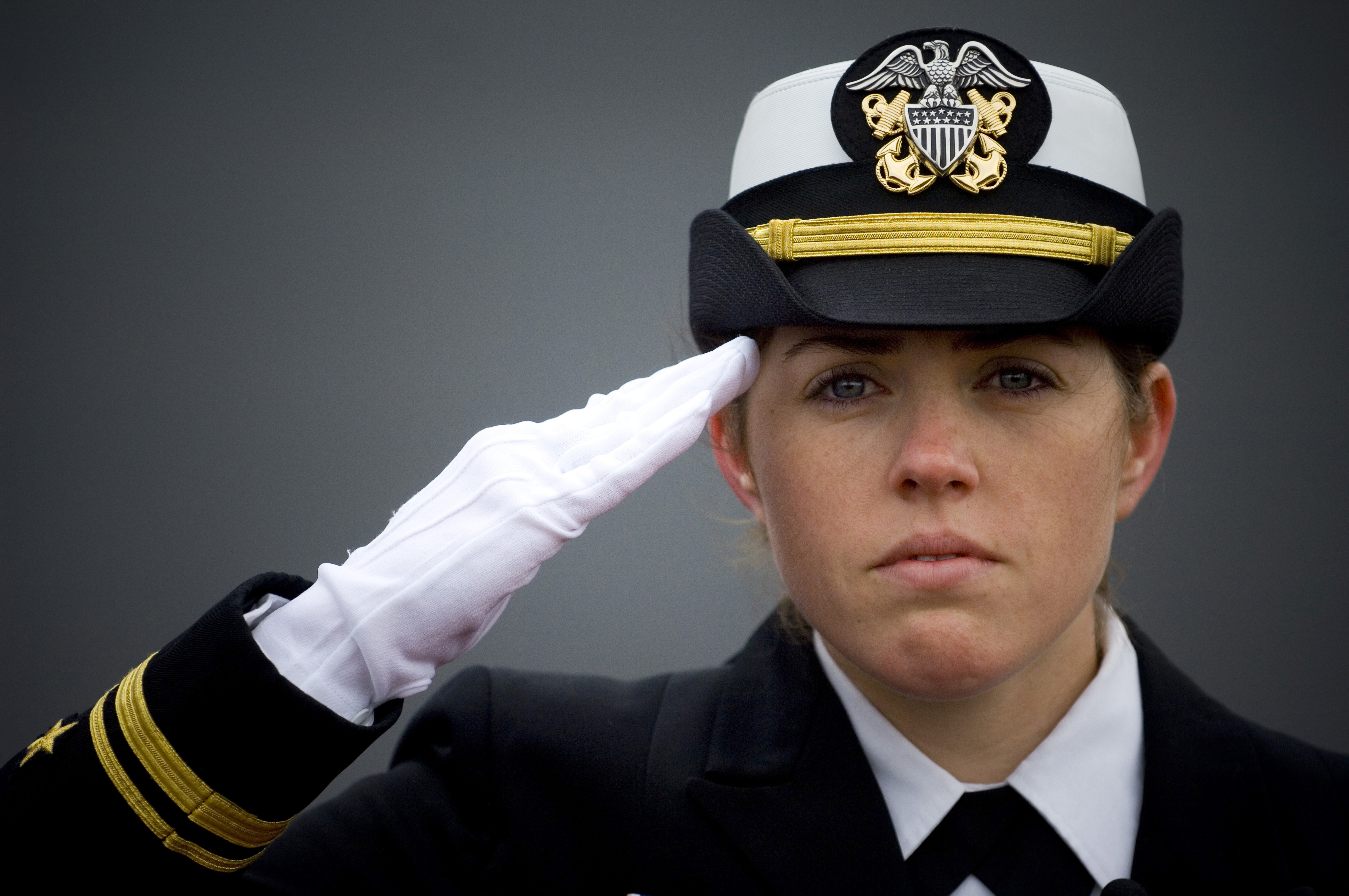 Ship's Navigator Lt. j.g. Shaina Hayden renders honors to the national anthem during the commissioning ceremony for the littoral combat ship USS Freedom (LCS 1) at Veterans Park in Milwaukee, Wis.